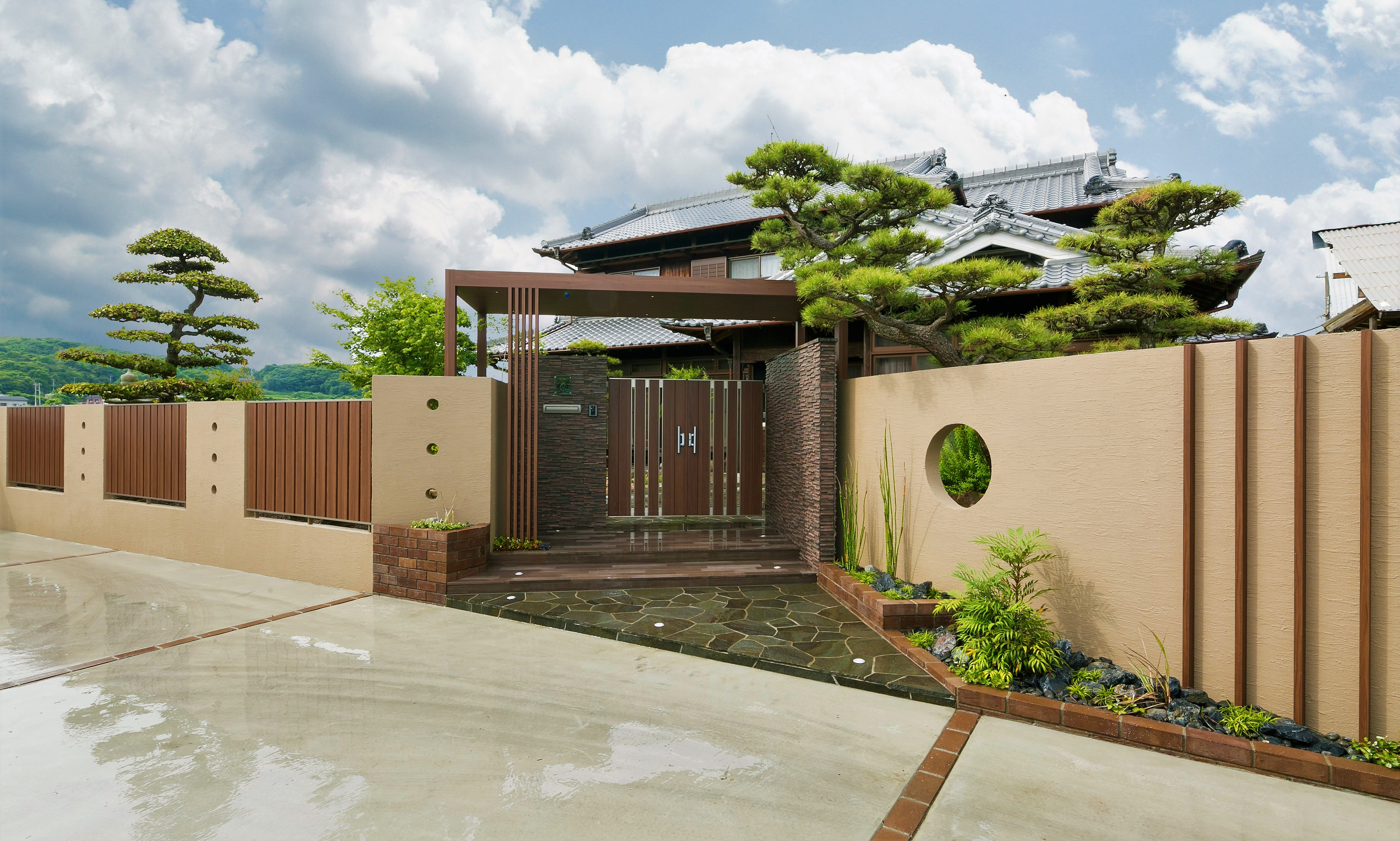 クローズド外構、和風塀 outdoor facility (closed type)Japanese style fence Himawari Life